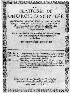 Title page of the Cambridge Platform